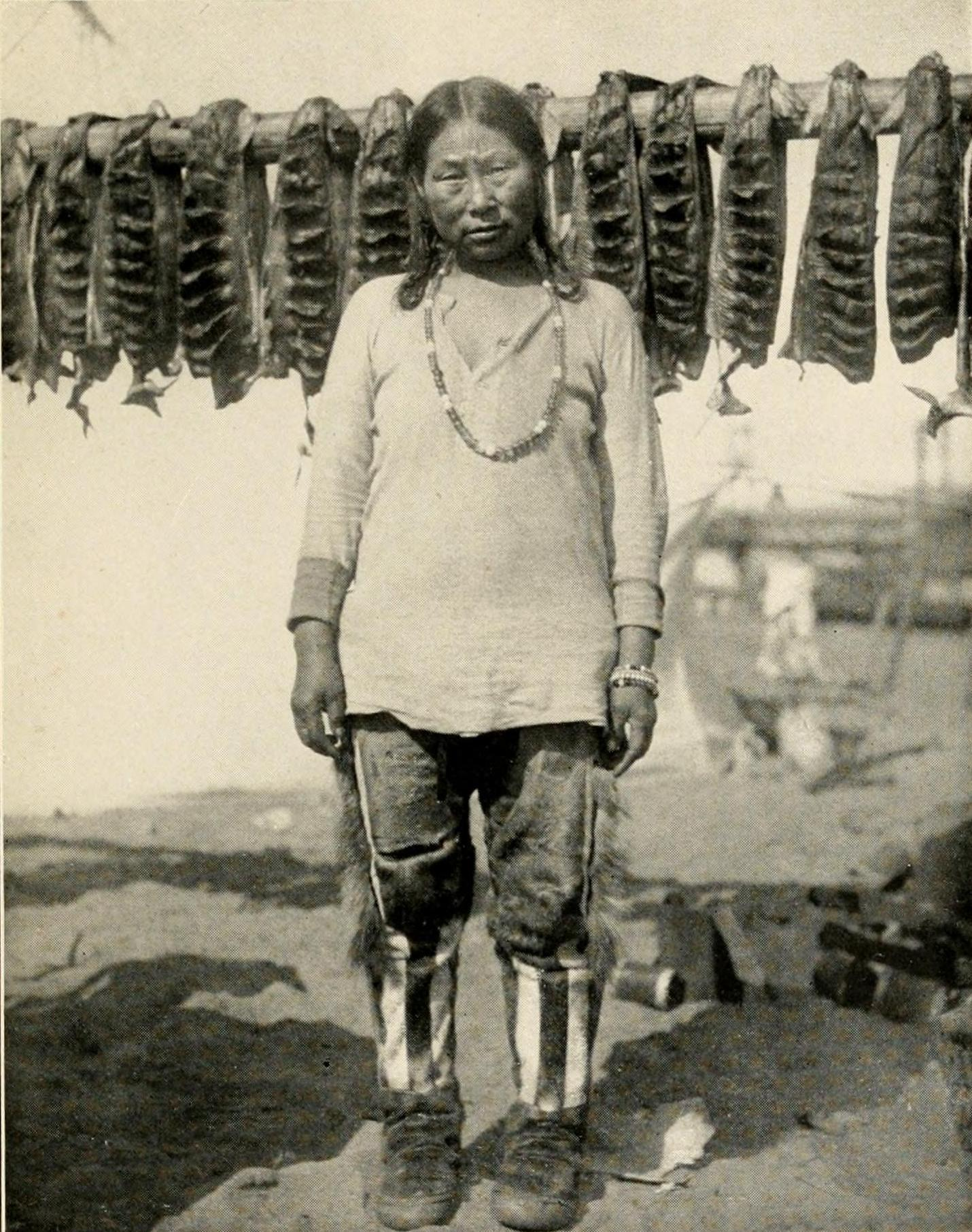 An Alaska native poses in front of a rack of drying salmon fillets on a beach. This photo provides a good view of the manner of hanging the fillets on the rack. Photo could be several years earlier than publication date.